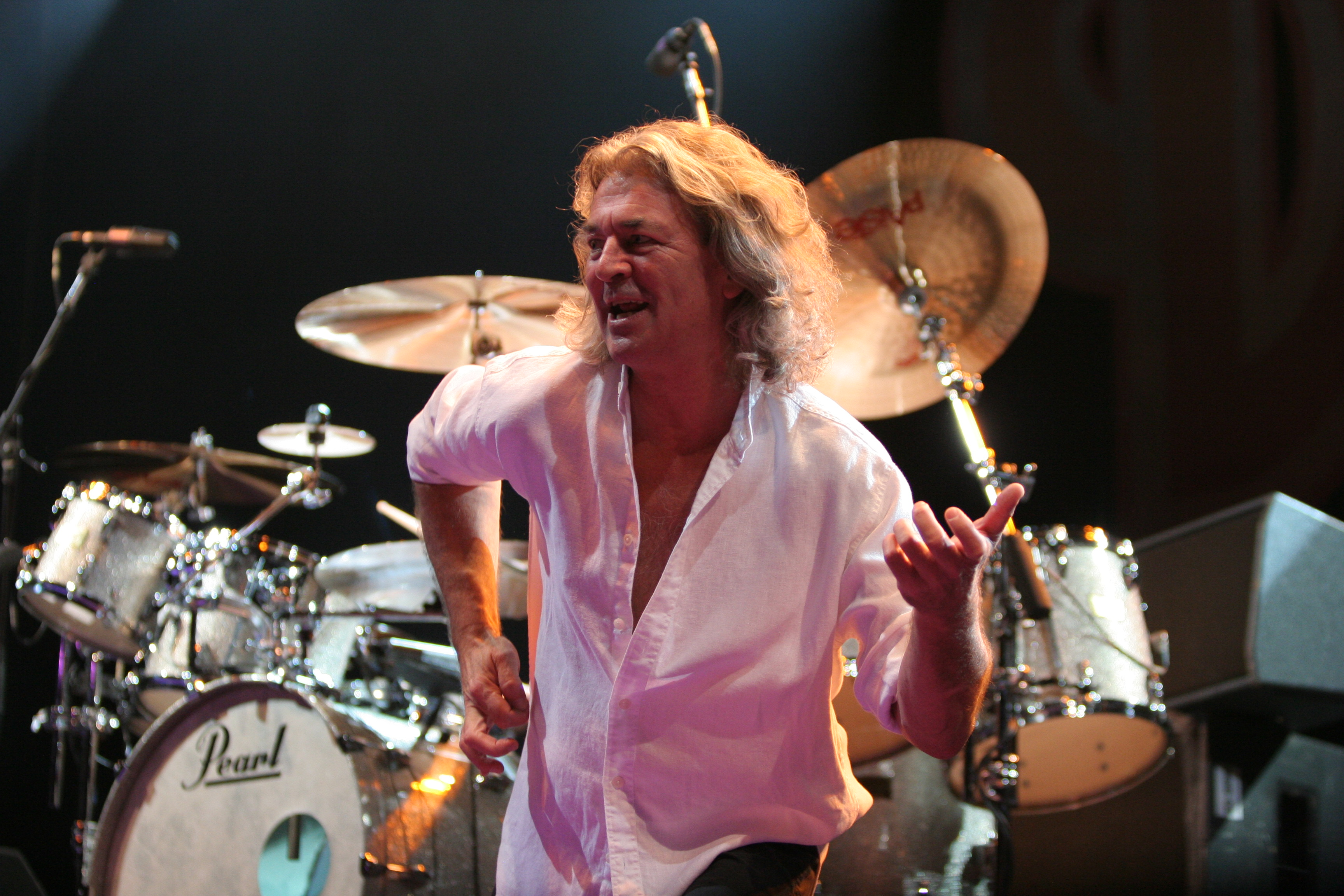 Ian Gillan playing air guitar during a Deep Purple concert at the Molson Amphitheatre, Toronto, Ontario, Canada.